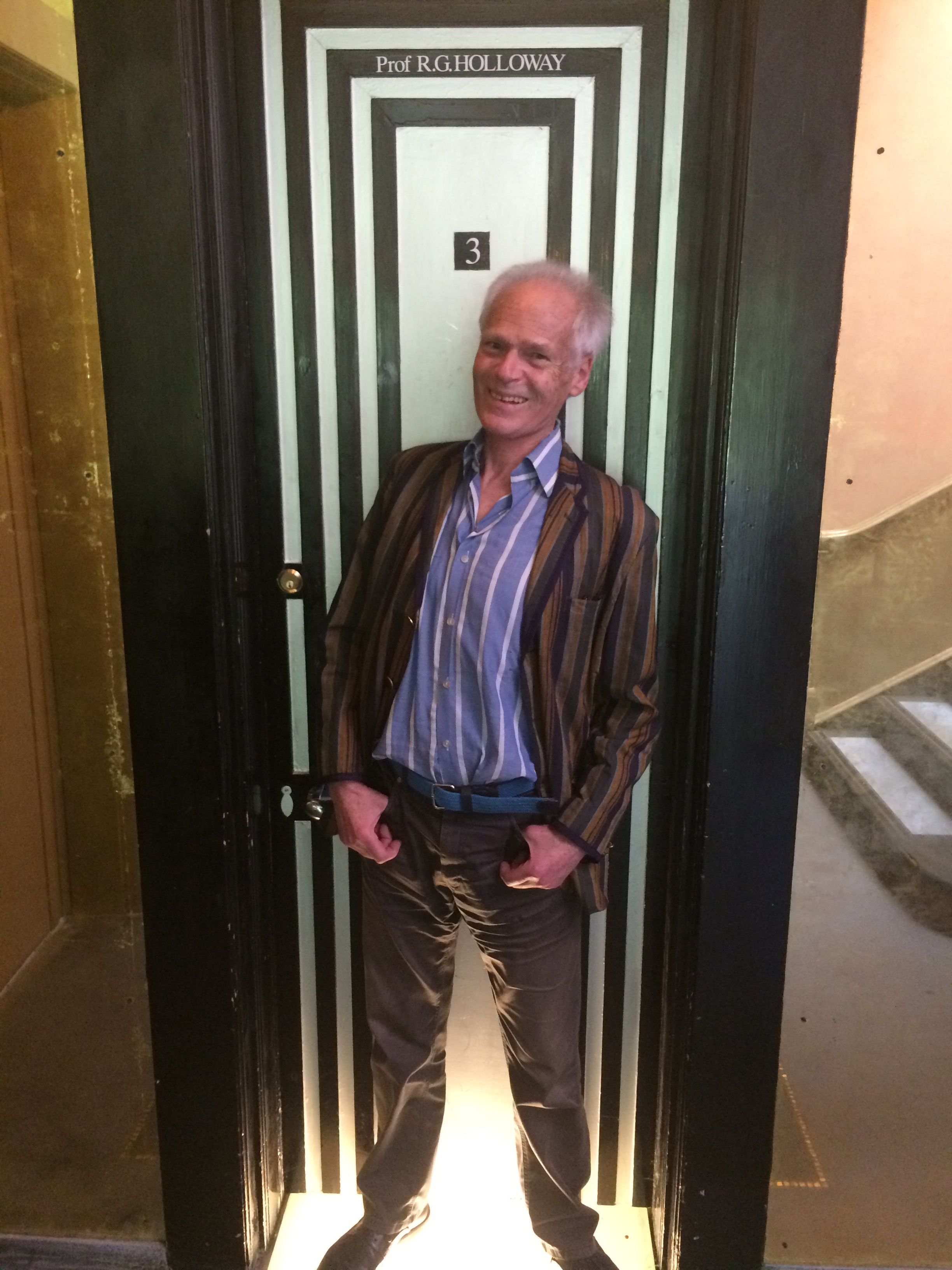 Photo by Michael Daugherty